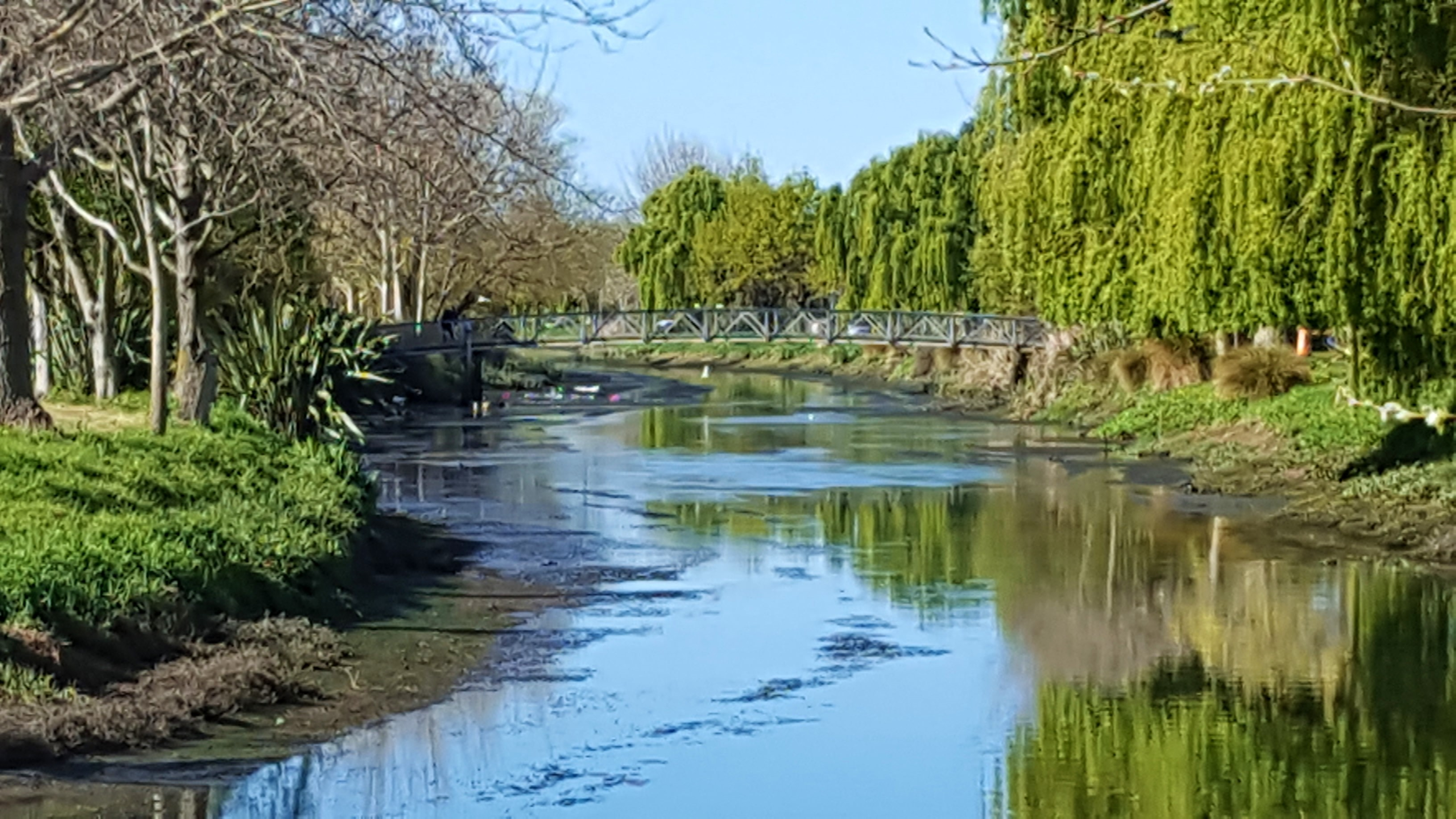 Heathcote river, as seen from Clarendon Terrace, Woolston, Christchurch